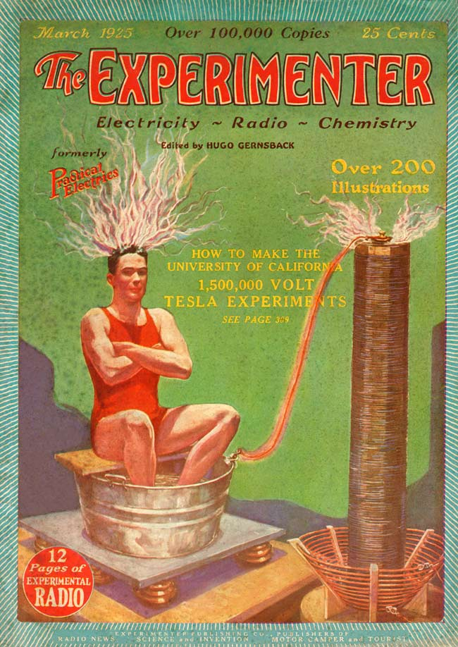 Cover of the March 1925 issue of the Hugo Gernsback science magazine The Experimenter, showing electrotherapy using a homemade Oudin coil.